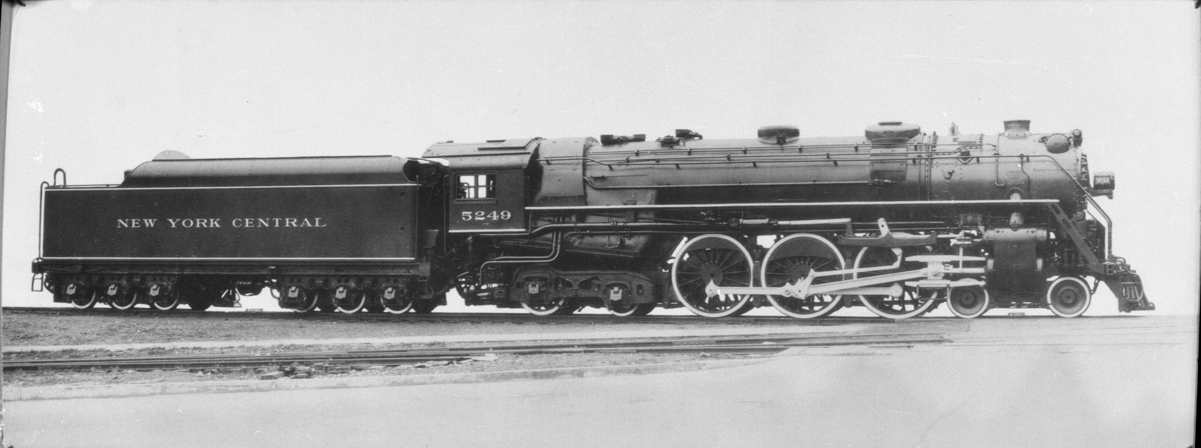 Hudson (4-6-4) Express Locomotive, New York Central Lines Used for working the "Twentieth Century Limited" Photo: N. Y. Central Lines